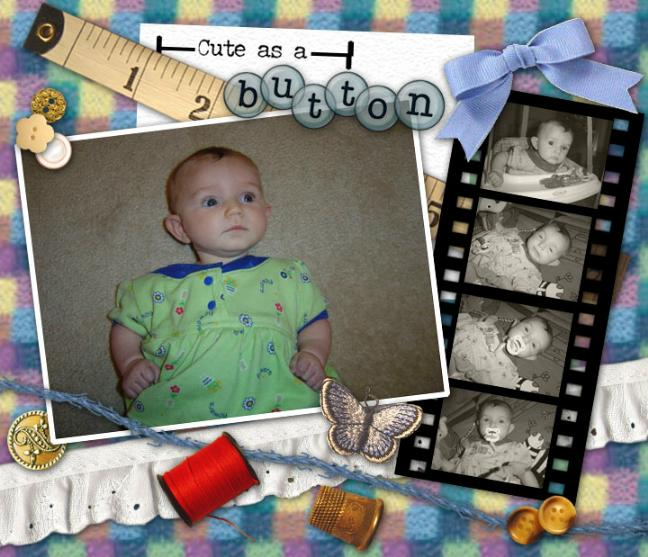 Example of a digital scrapbook page created using Adobe Photoshop Elements 2.0 and photographs taken by Joy Schoenberger (the site has moved here) using a Sony Cybershot digital camera.